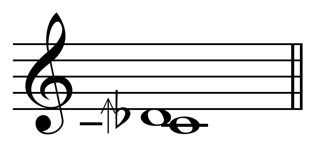 Greater undecimal neutral second on C = D↑♭-. 11/10 = 165 cents. Limit: 11-limit.